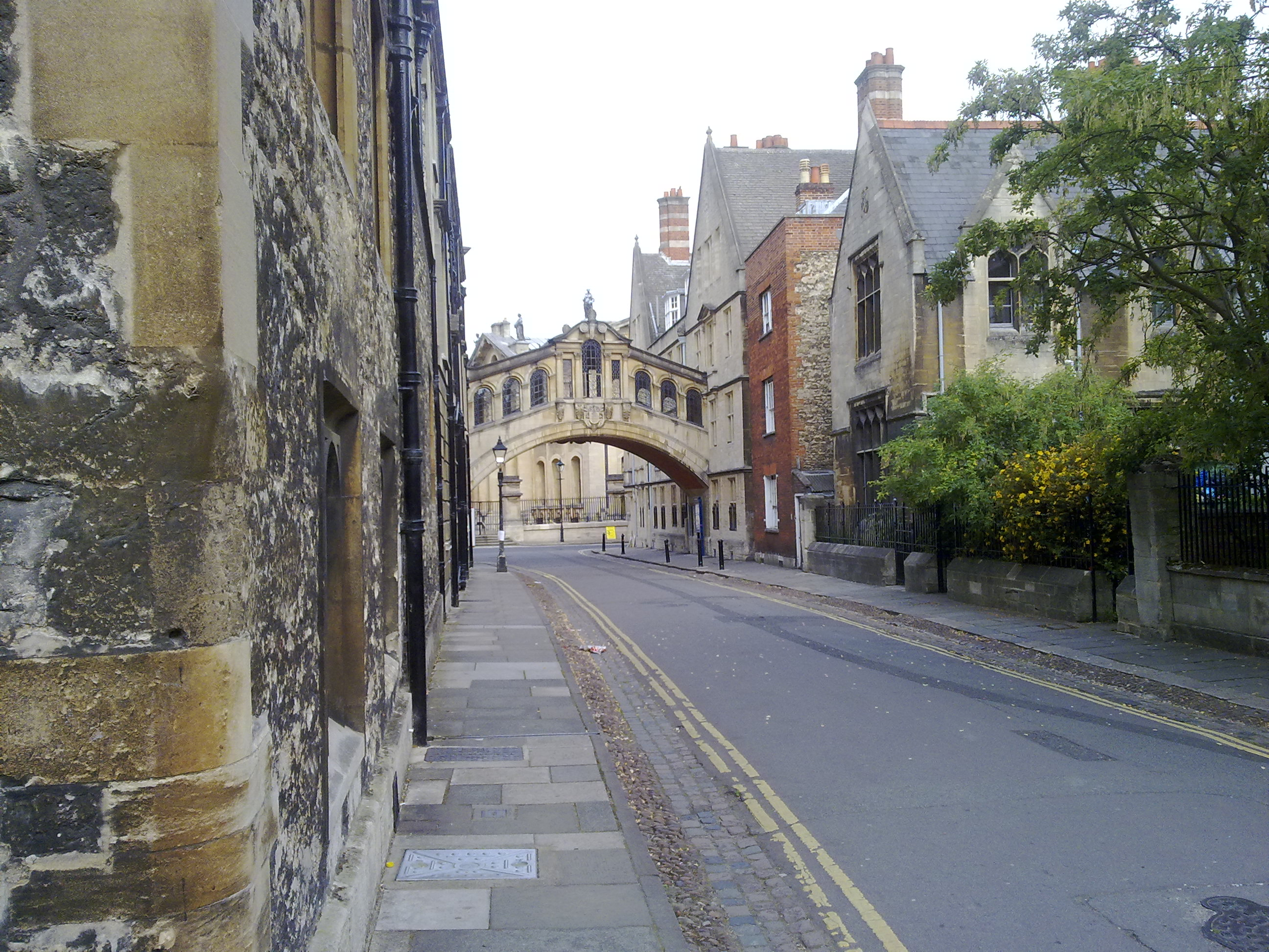 The north end of New College Lane, adjacent Hertford College, looking towars the Bridge of Sighs.